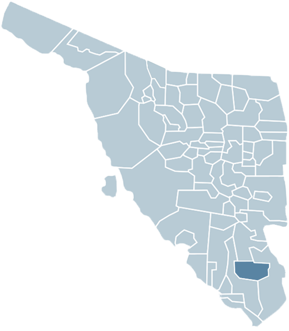 Map of the Municipality of Quiriego, in southern Sonora state, México.